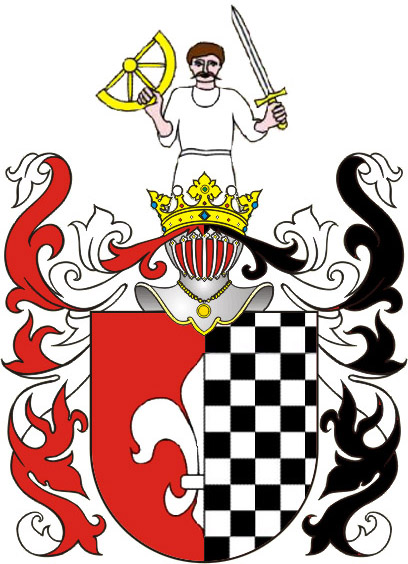 Herb Wyssogota Clan This image was uploaded in the JPEG format even though it consists of non-photographic data. This information could be stored more efficiently or accurately in the PNG or SVG format. If possible, please upload a PNG or SVG version of this image without compression artifacts, derived from a non-JPEG source (or with existing artifacts removed). After doing so, please tag the JPEG version with Superseded|NewImage.ext and remove this tag. This tag should not be applied to photographs or scans. For more information, see BadJPEG .